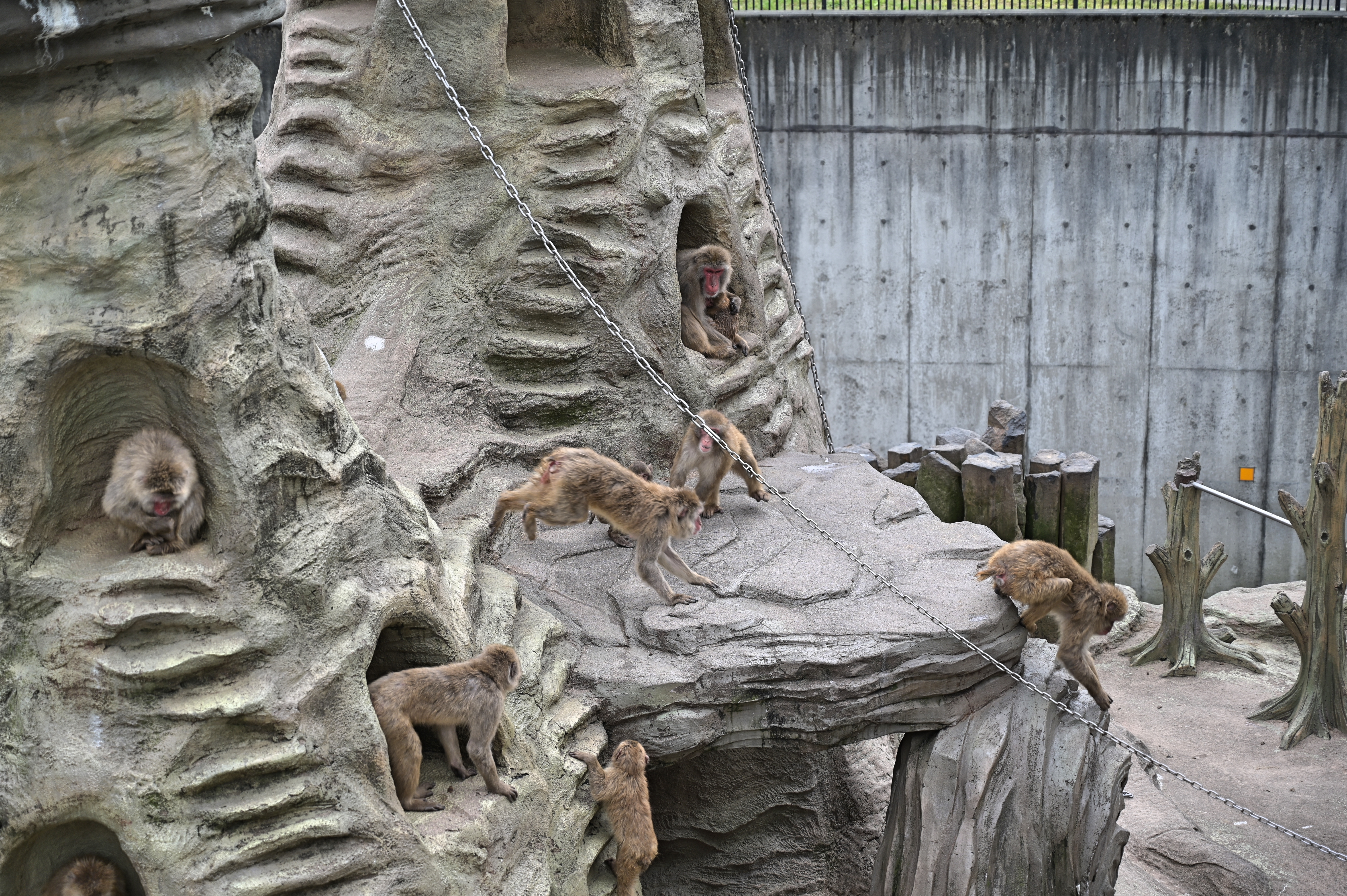 Monkeys at Yukyuzan Mini-Zoo, Nagaoka, Niigata Prefecture, Japan